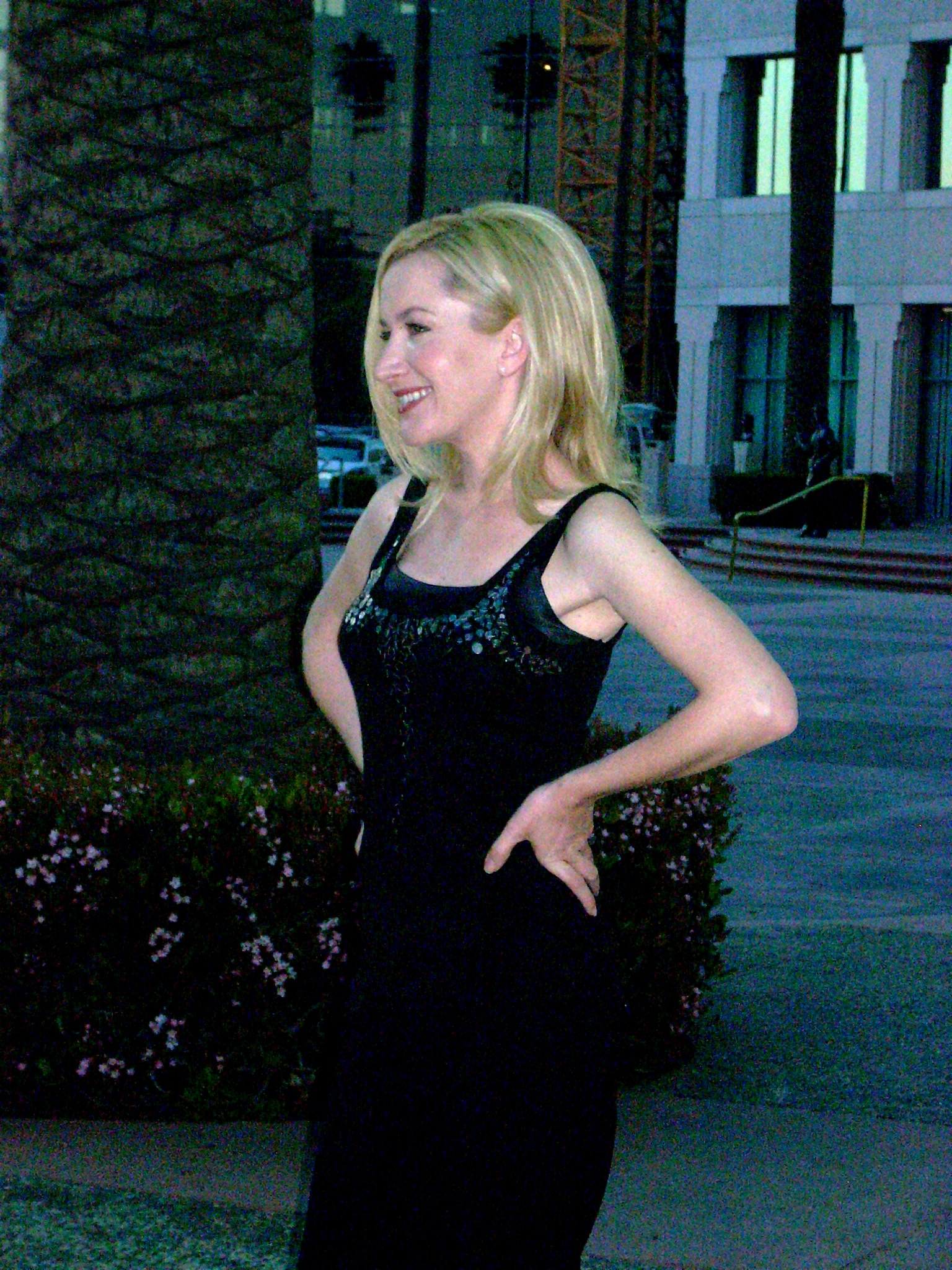 Angela Kinsey - Inside "The Office" at the Academy of Television Arts & Sciences, North Hollywood, California.